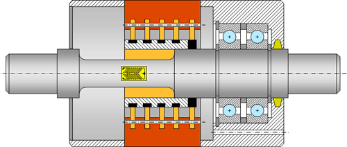 diagram of torque transducer with shaft spring element and signal transfer by slip rings